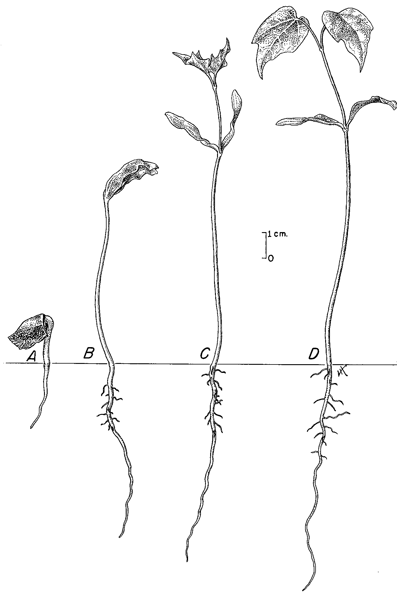 Maple. Seedling. Drawing.